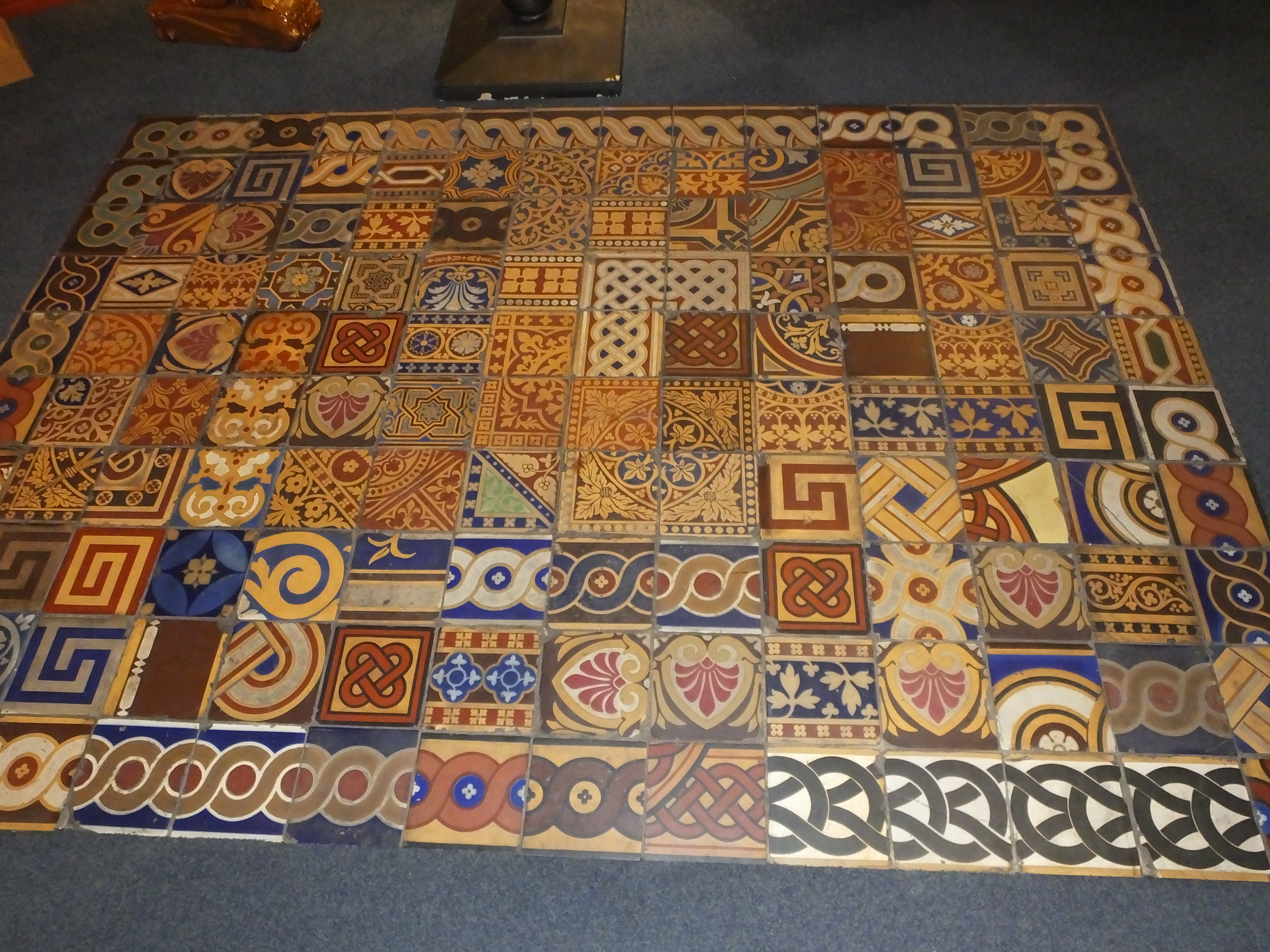 The Gladstone Pottery Museum The Gladstone Pottery Museum is a grade II* listed site in Stoke-on-Trent, with many protected features including the bottle kilns. There is a gallery devoted to the history of the tile, and its manufacture. There were processes such as Copper plate engraving Photo printed tiles The Mintons factory pioneered Samuel Wrights Encaustic tiles Dust pressed tiles Block printing for tile decoration 'Majolica glazes'